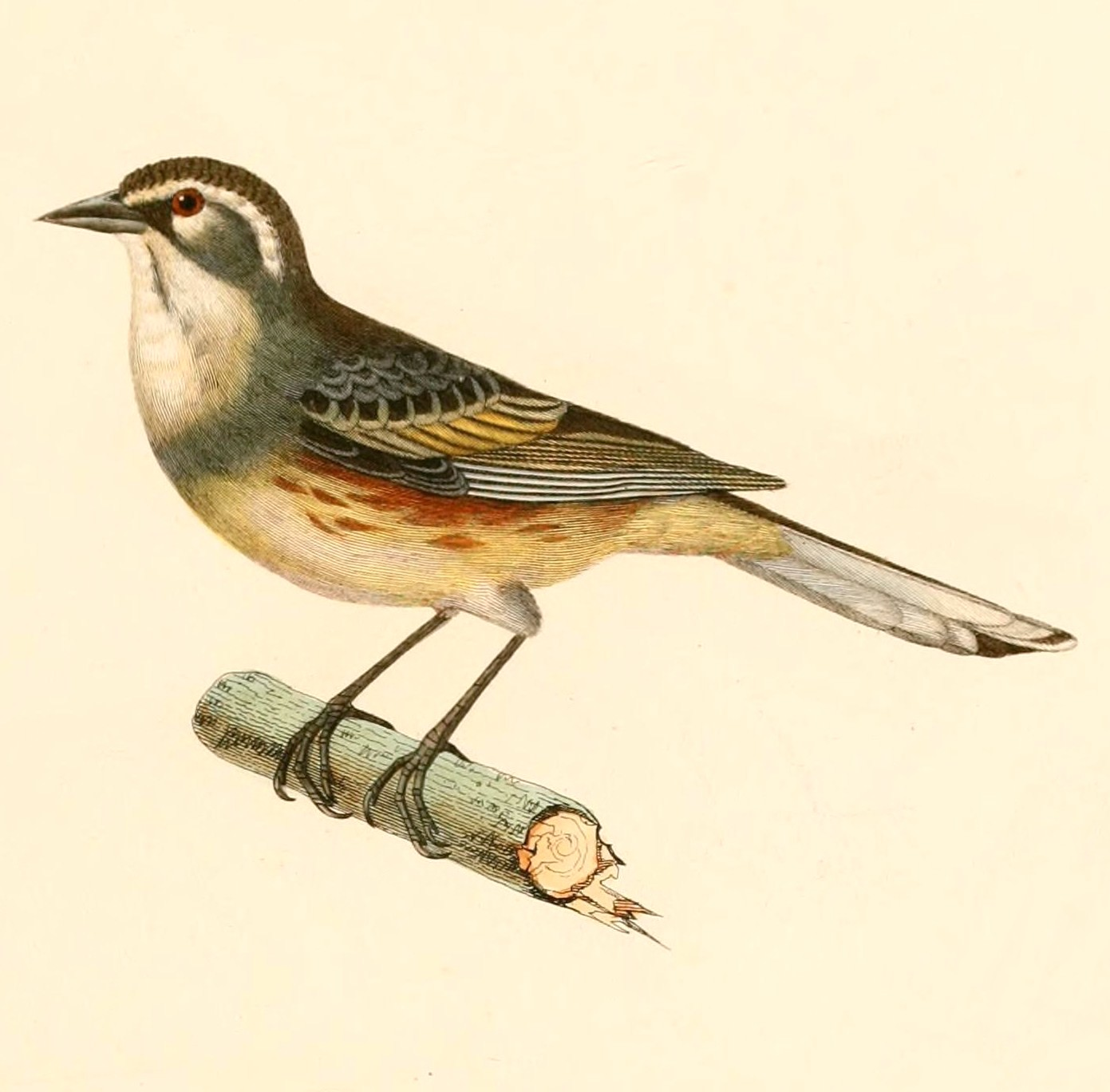 « Emberiza hypochondria » = Poospiza hypochondria (Rufous-sided Warbling Finch)